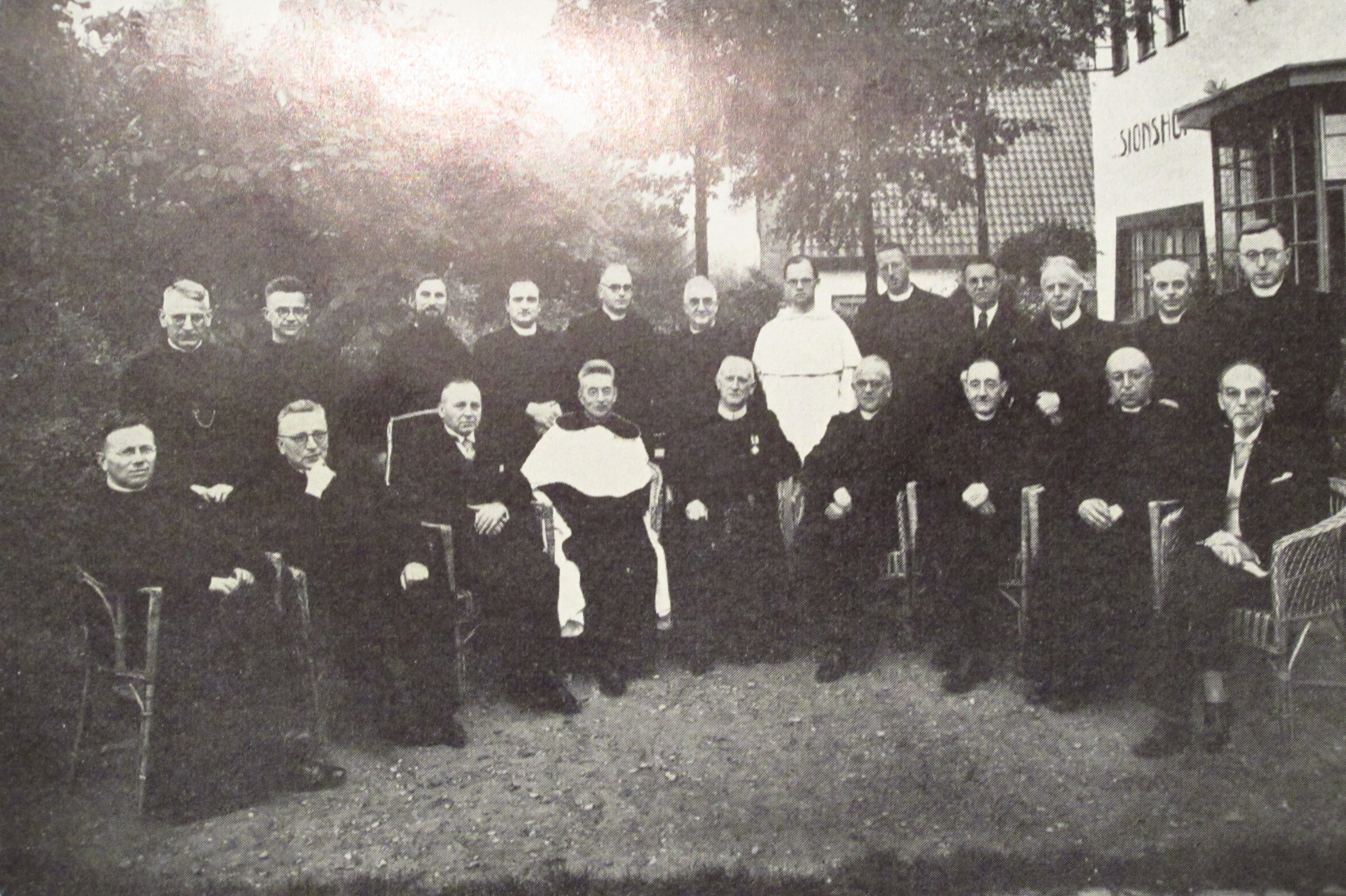 Het bestuur van het Apostolaat der Hereniging tijdens het gouden professiefeest van voorzitter Van Keulen (midden) in 1941.